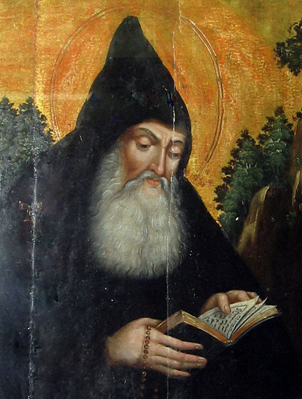 Saint Anthony the Great. Armenian icon.